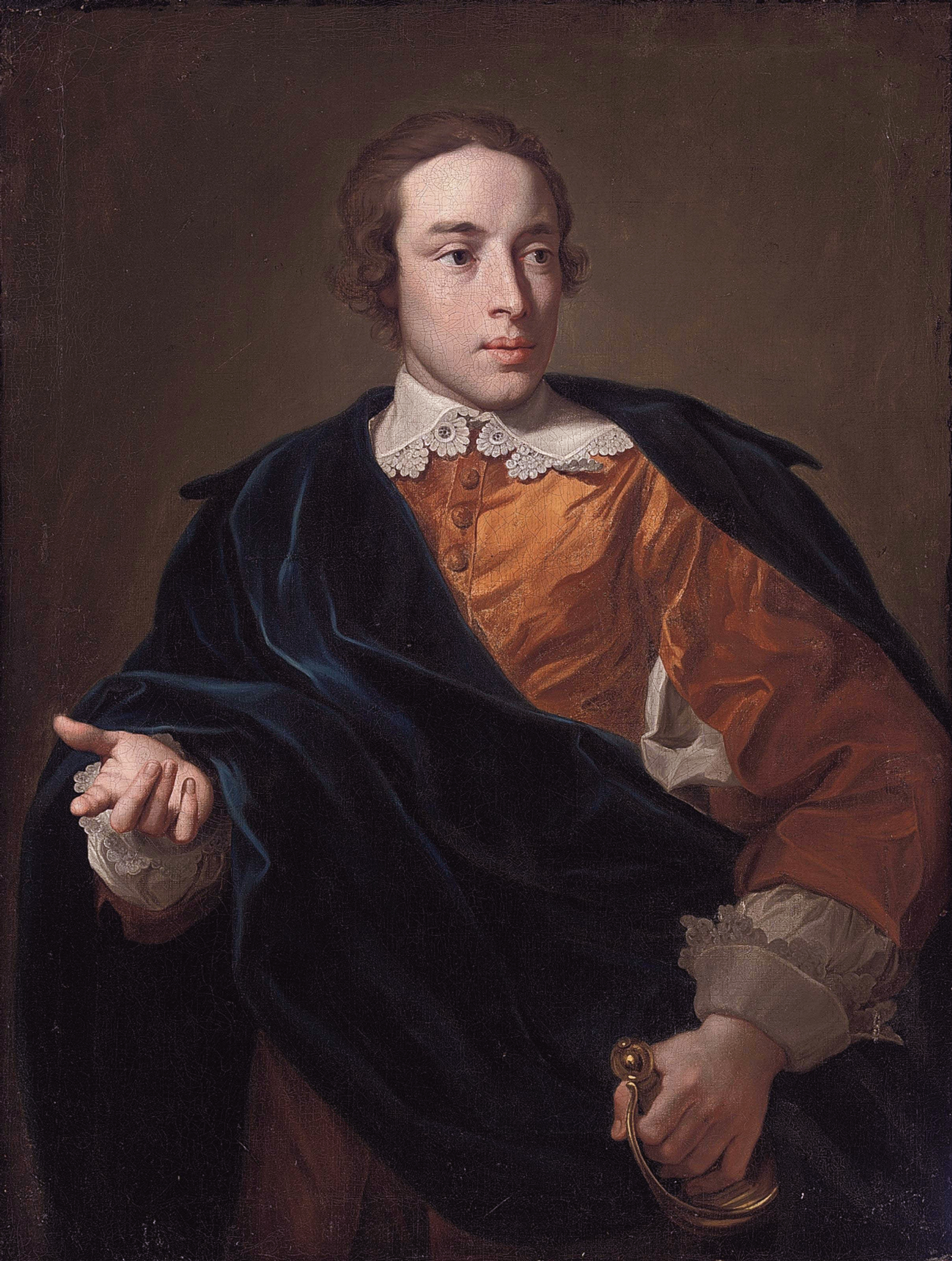 John Brudenell-Montagu, later Marquess of Monthermer (1735-1770) in a red coat and blue mantle